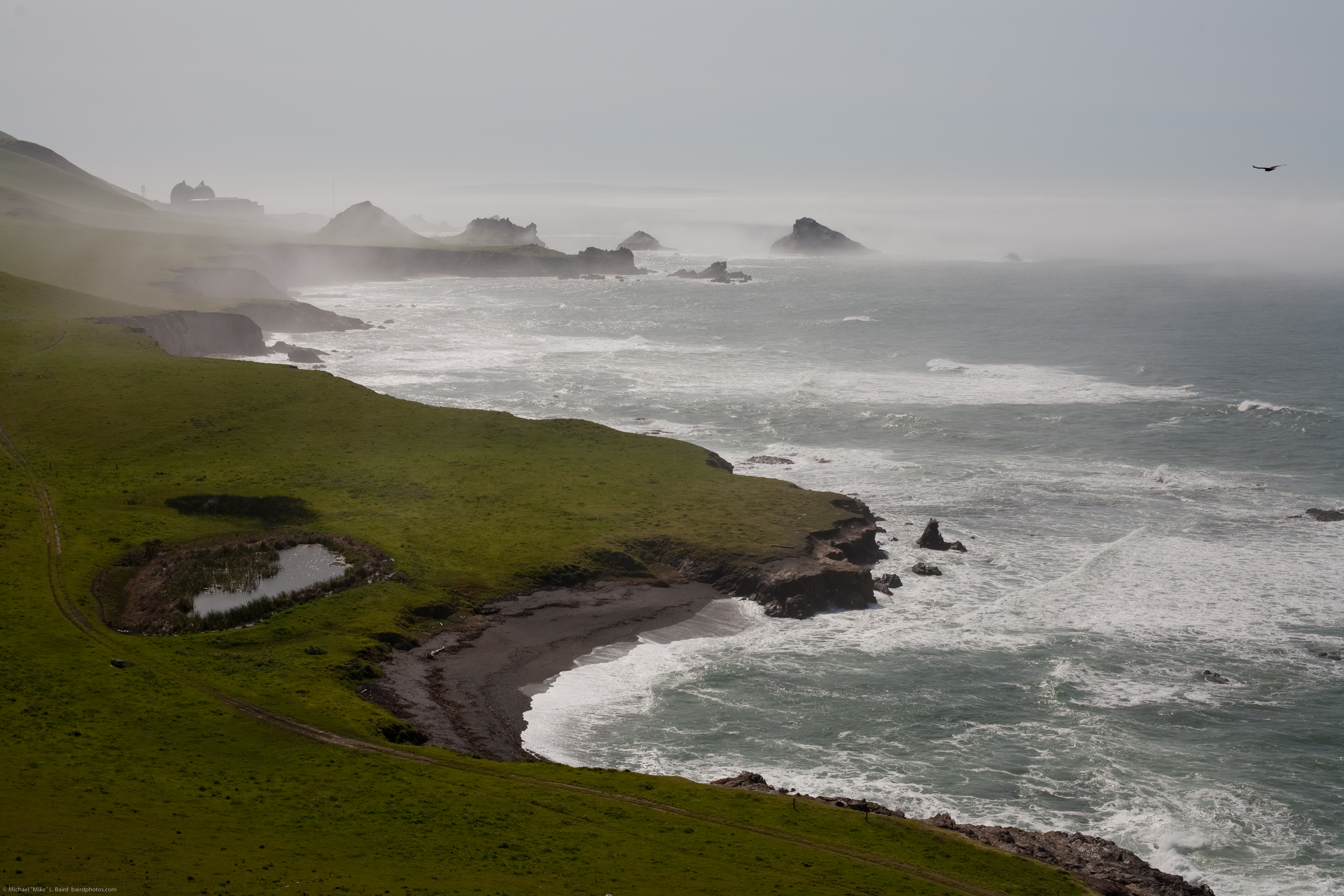 View from the Point Buchon Trail — on the Pacific coast in San Luis Obispo County, central California. The PG&E Diablo Canyon Nuclear Power Plant is in background, seen from Windy Point on the trail, with a surreal weather front moving in from the Pacific Ocean. Trailhead is at southern Montana de Oro State Park boundary, south of Baywood-Los Osos. Photo by Michael "Mike" L. Baird, mike [at} mikebaird d o t com, ; Canon 5D, Canon 50mm f/1.4 IS Lens handheld.